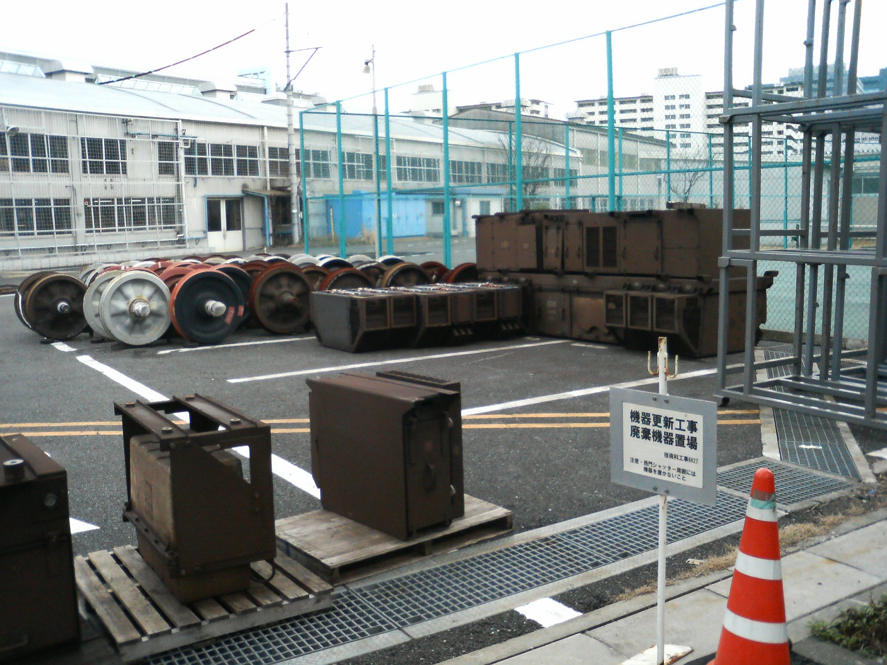 Used variable-frequency drive units ; electric multiple units of JR East.